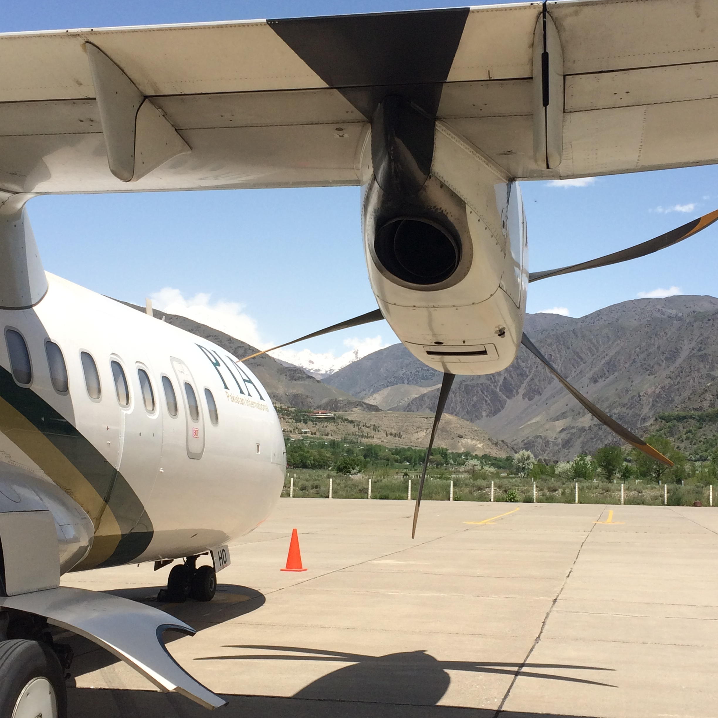 Chitral airport